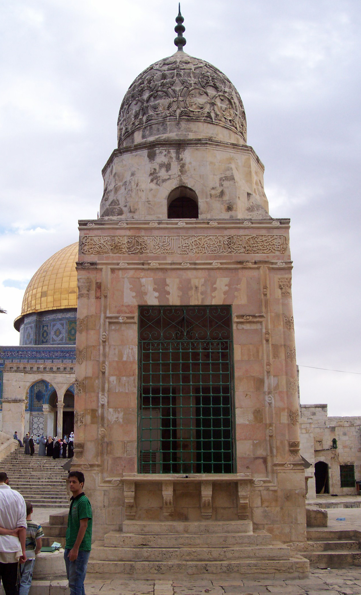 The Fountain of Qayt Bay western to dome of the rock